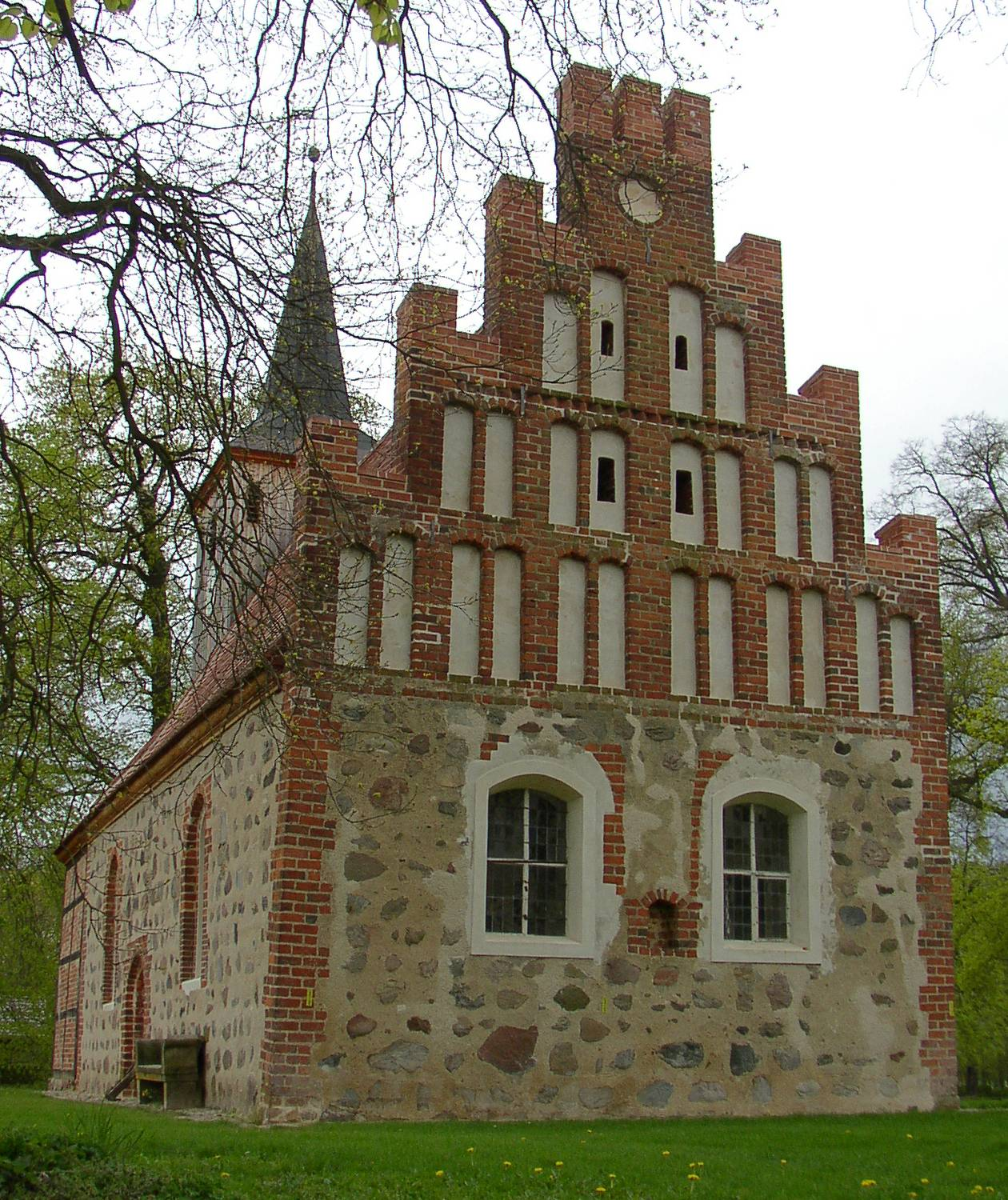 Church in Kyritz-Berlitt in Brandenburg, Germany